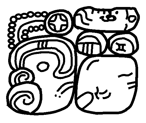 Emblem glyph of the Late Classic Maya polity of Sacul, Peten, Guatemala.